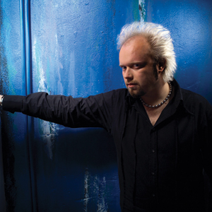 Portrait of Svante Karlsson ca 2003